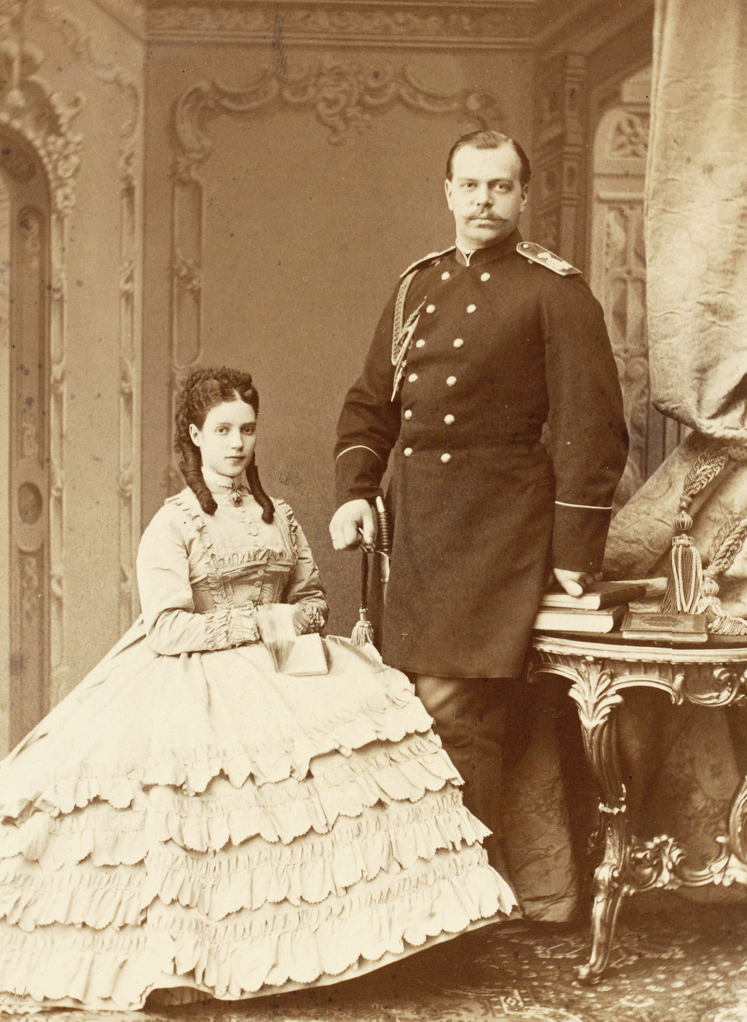 Tsarevich Alexander Alexandrovich with his wife, crown princess and Grand Duchess Maria Feodorovna, St. Petersburg, the end of 1860.